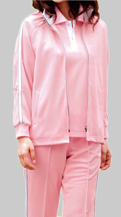 Womens Tracksuits Set